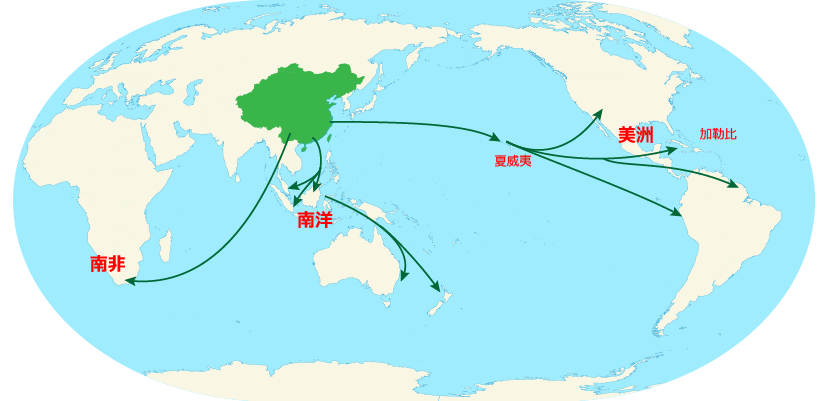 Chinese immigrants in the nineteenth century - Global roadmap